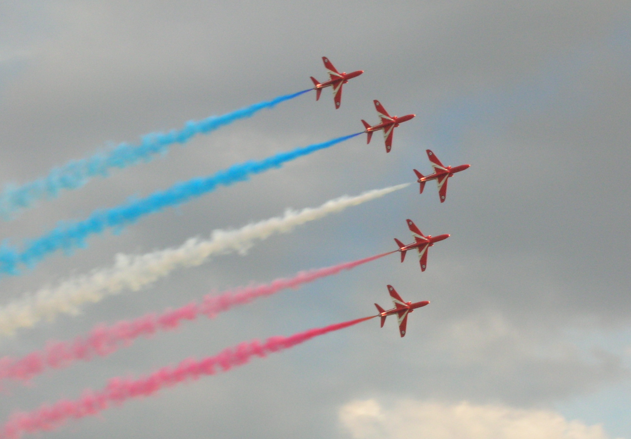 Red Arrows BAe Hawk passing by, Radom Airshow 2005.